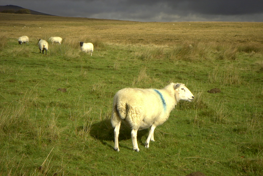 Sheep and bad weather, Dartmoor